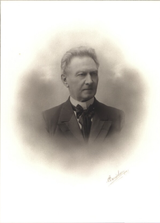 Emil Hjorth, Danish violin maker